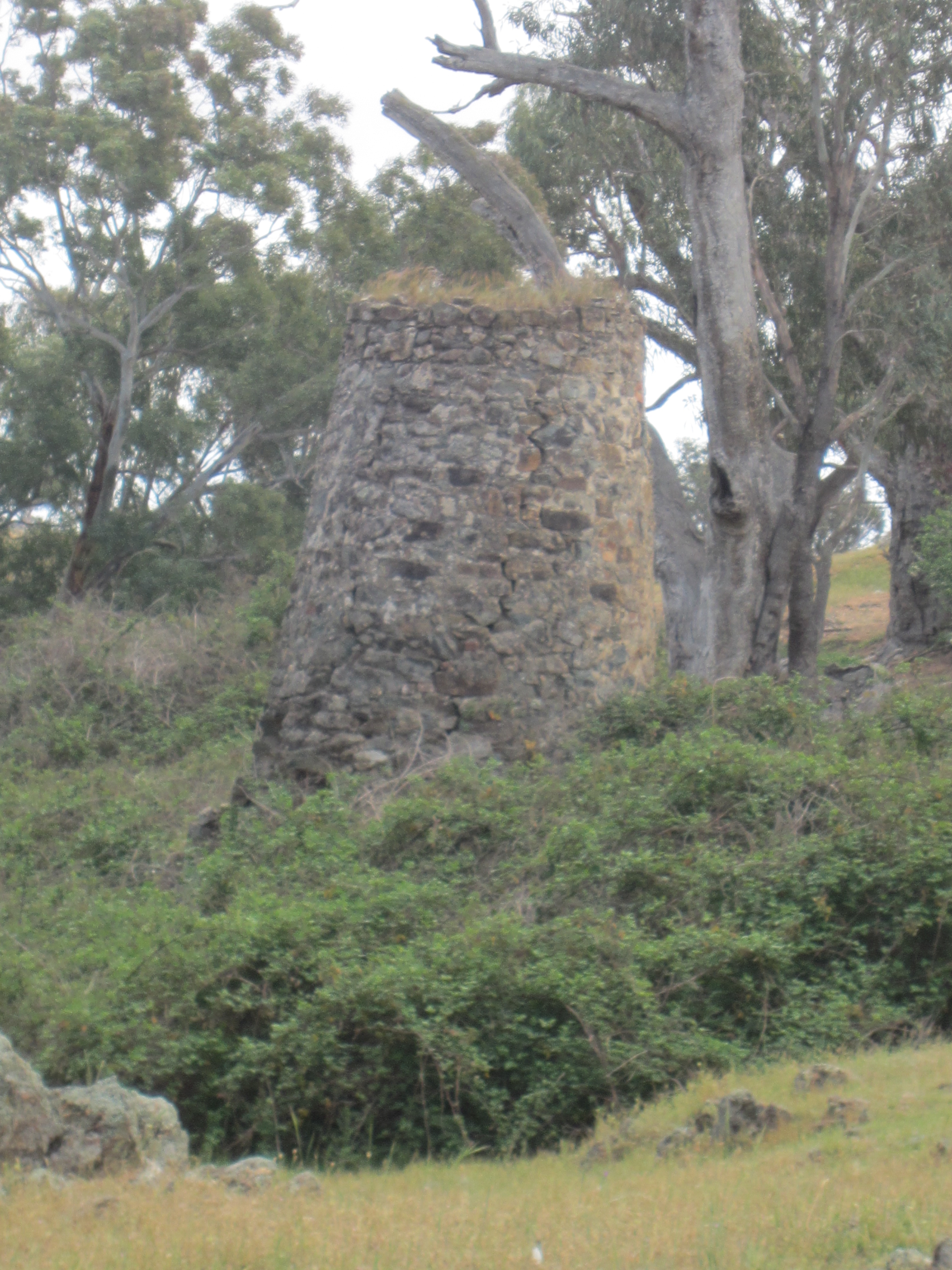 Side-view of Bogolong Blast Furnace from public land on Ilalong Rd (October 2019). The base of the furnace is hidden by blackberry bushes.